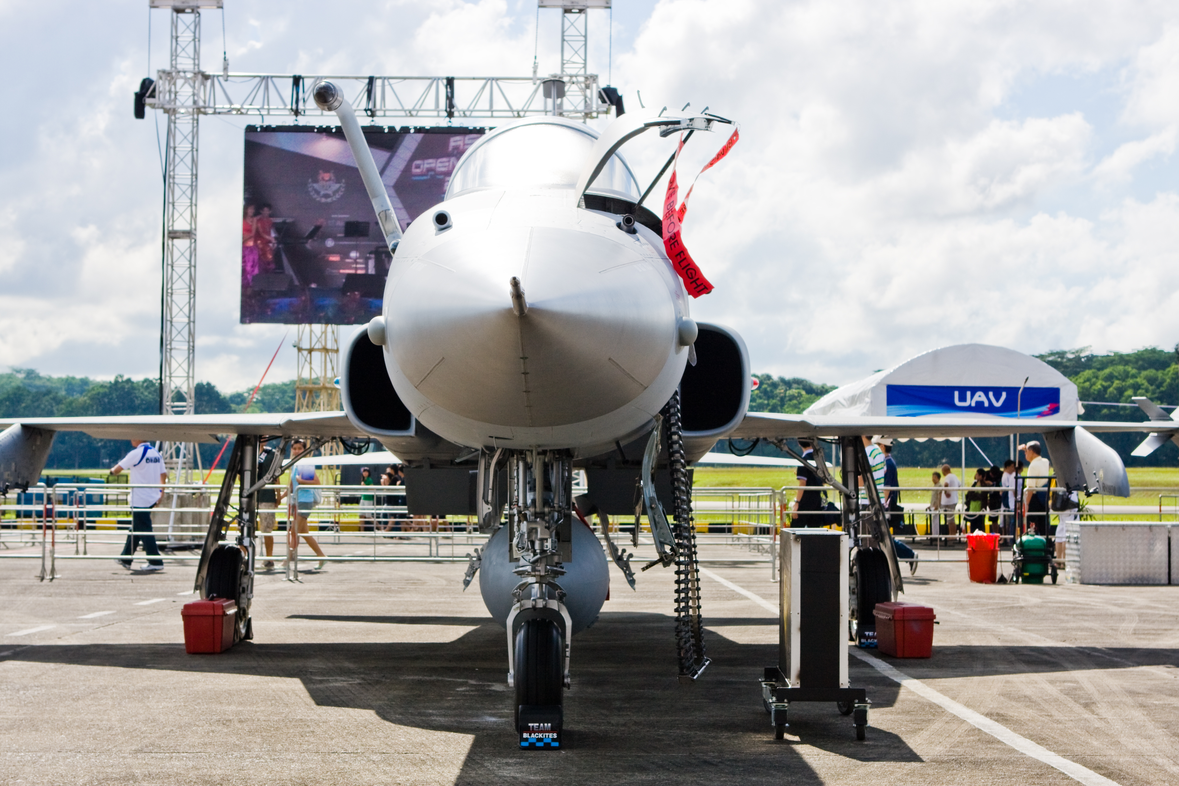 Republic of Singapore Air Force F-5 on static display